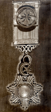 Morris Schinasi (1855-1927) Abdülhamid II honoured Morris with a Mecidiye of the Fourth Order in 1906 for his services to the Turkish economy by importing Turkish tobacco to the USA. (Courtesy of Naim Güleryüz)